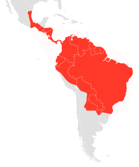 Distribution of Myotis nigricans